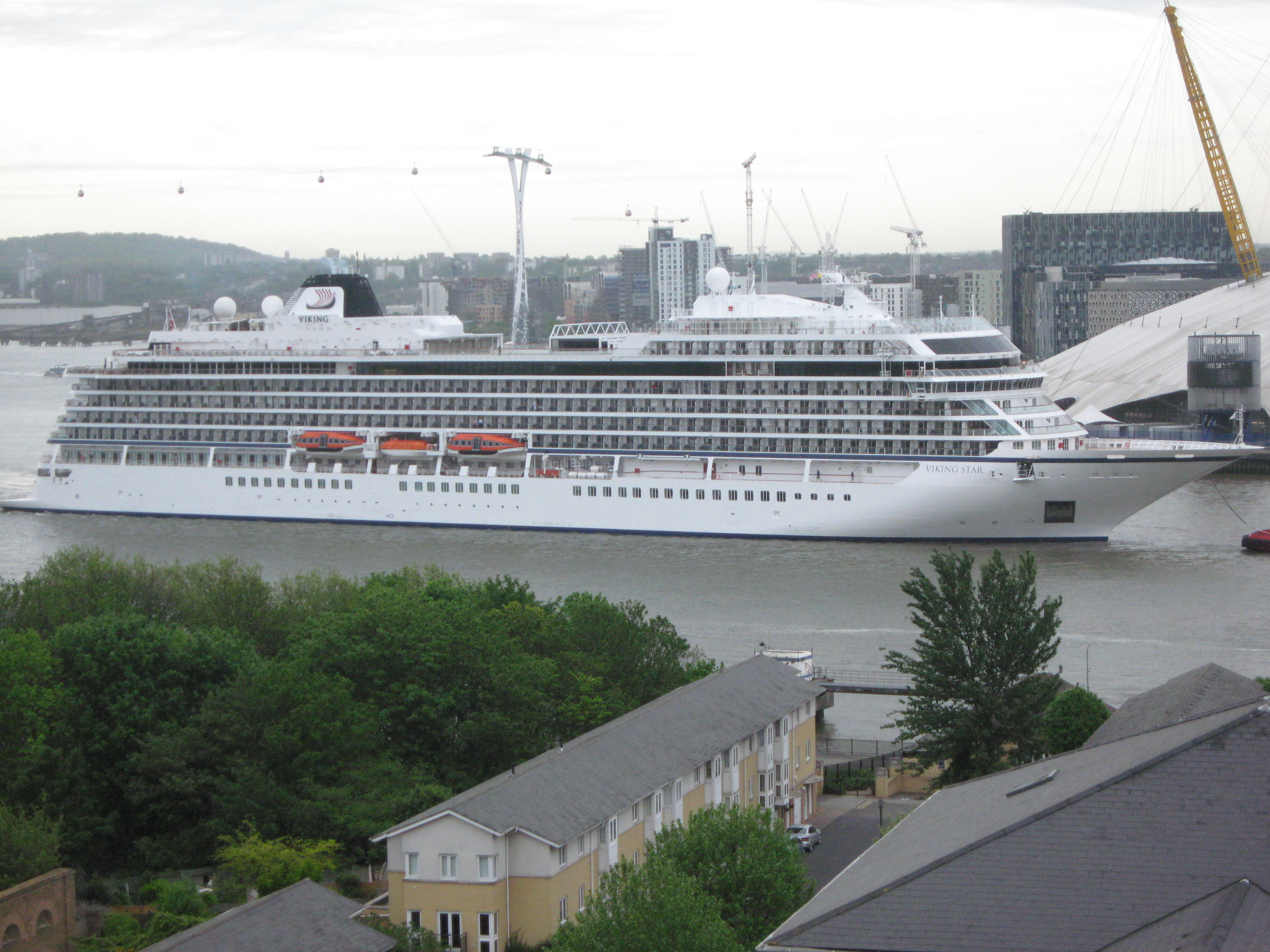 MS Viking Star passing the O2 dome in London early in the morning of 12th May 2015